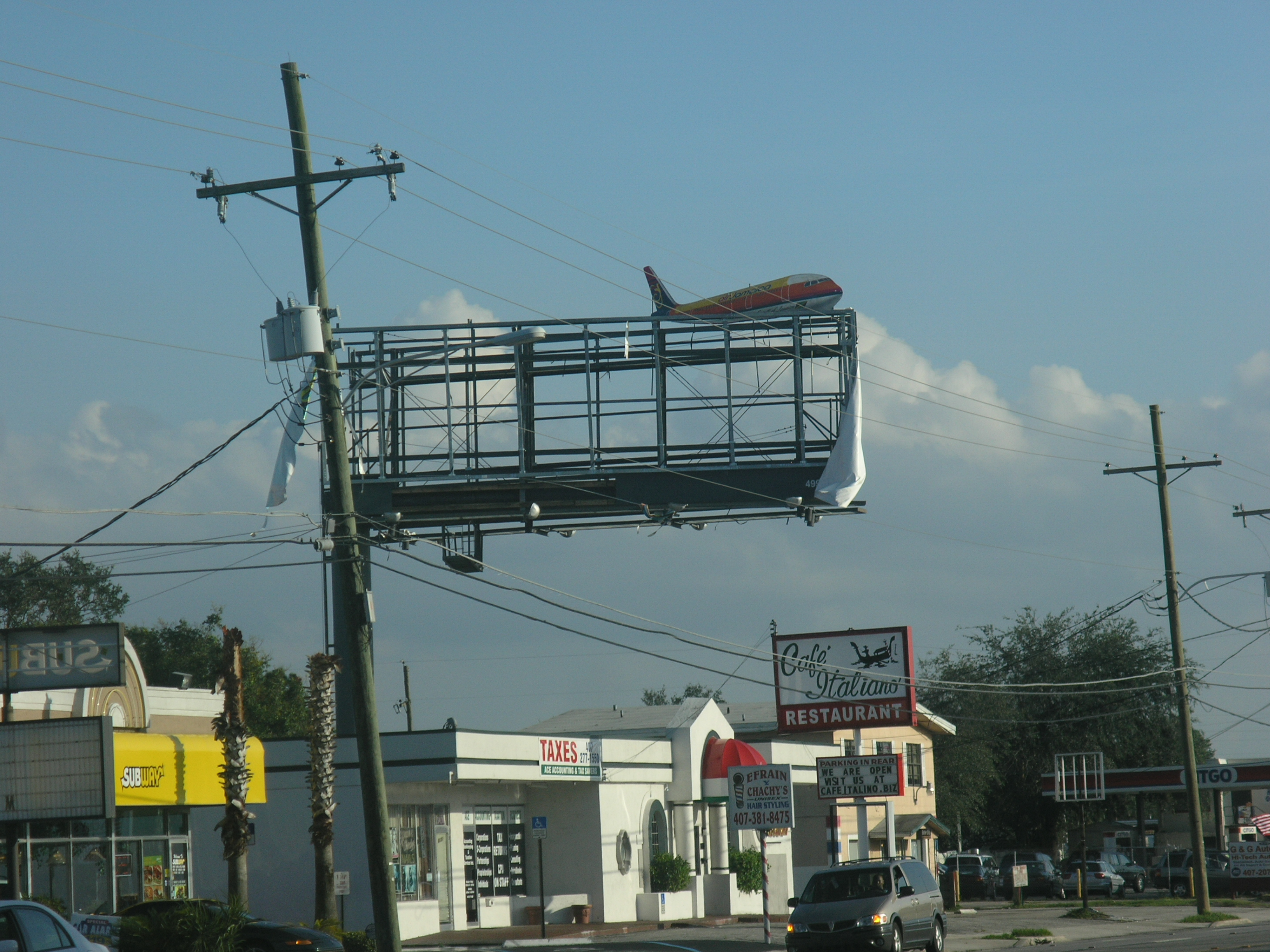 A damaged sign located on Florida State Road 436 just south of Florida State Road 50 in Orlando, Florida caused by Hurricane Jeanne. Other damage can be seen in the background. Note the Air Jamaica aircraft atop the billboard.